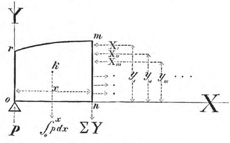 Illustration in the article by J. W. Schwedler (Zeitschrift für Bauwesen 1851, 1(3-4), p. 116) accompanying derivation of the formula which is known as Schwedler's theorem.